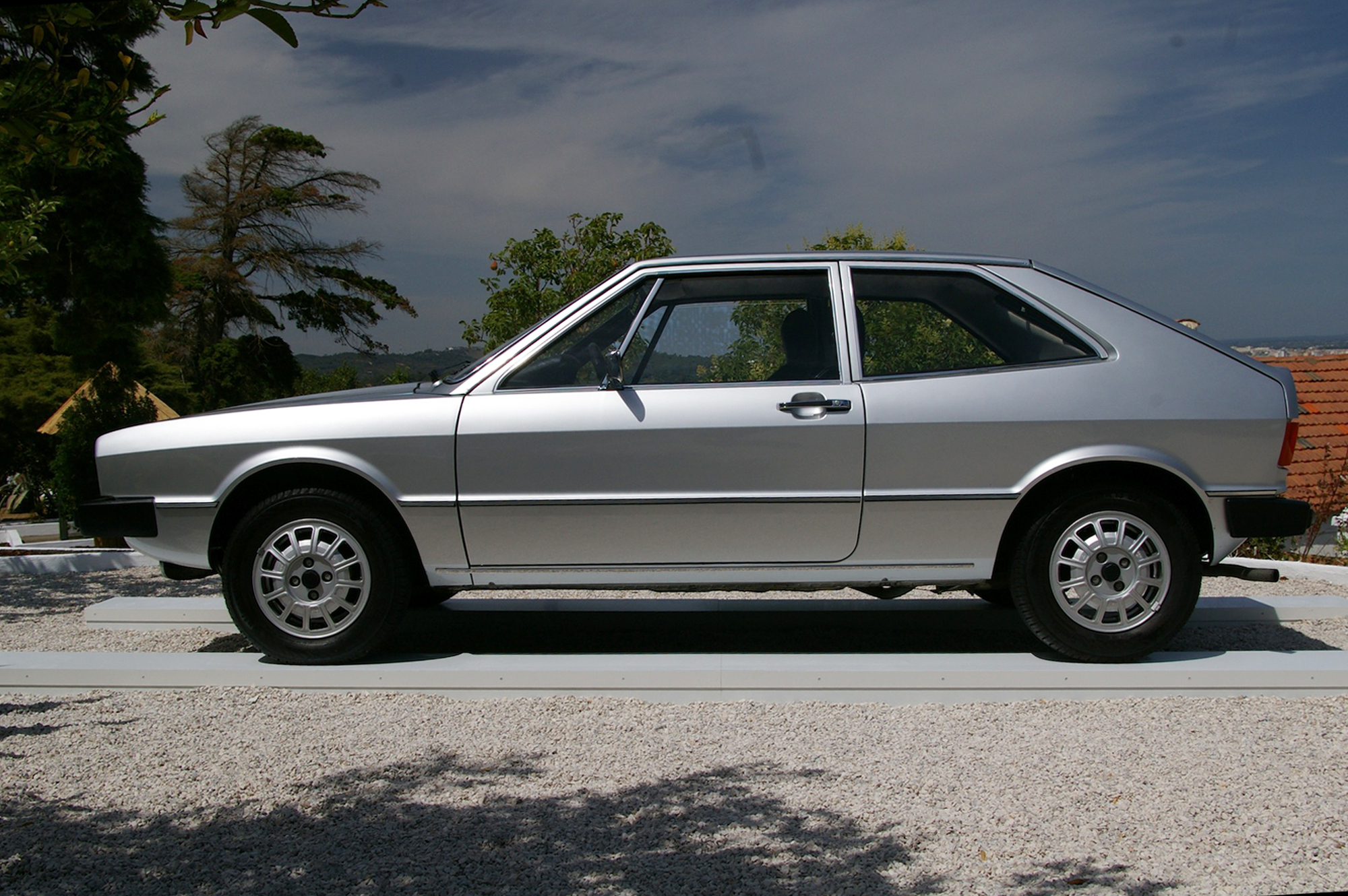 1974 Volkswagen Scirocco designed by Giorgetto Giugiaro belonging to the Stiftung AutoMuseum Volkswagen